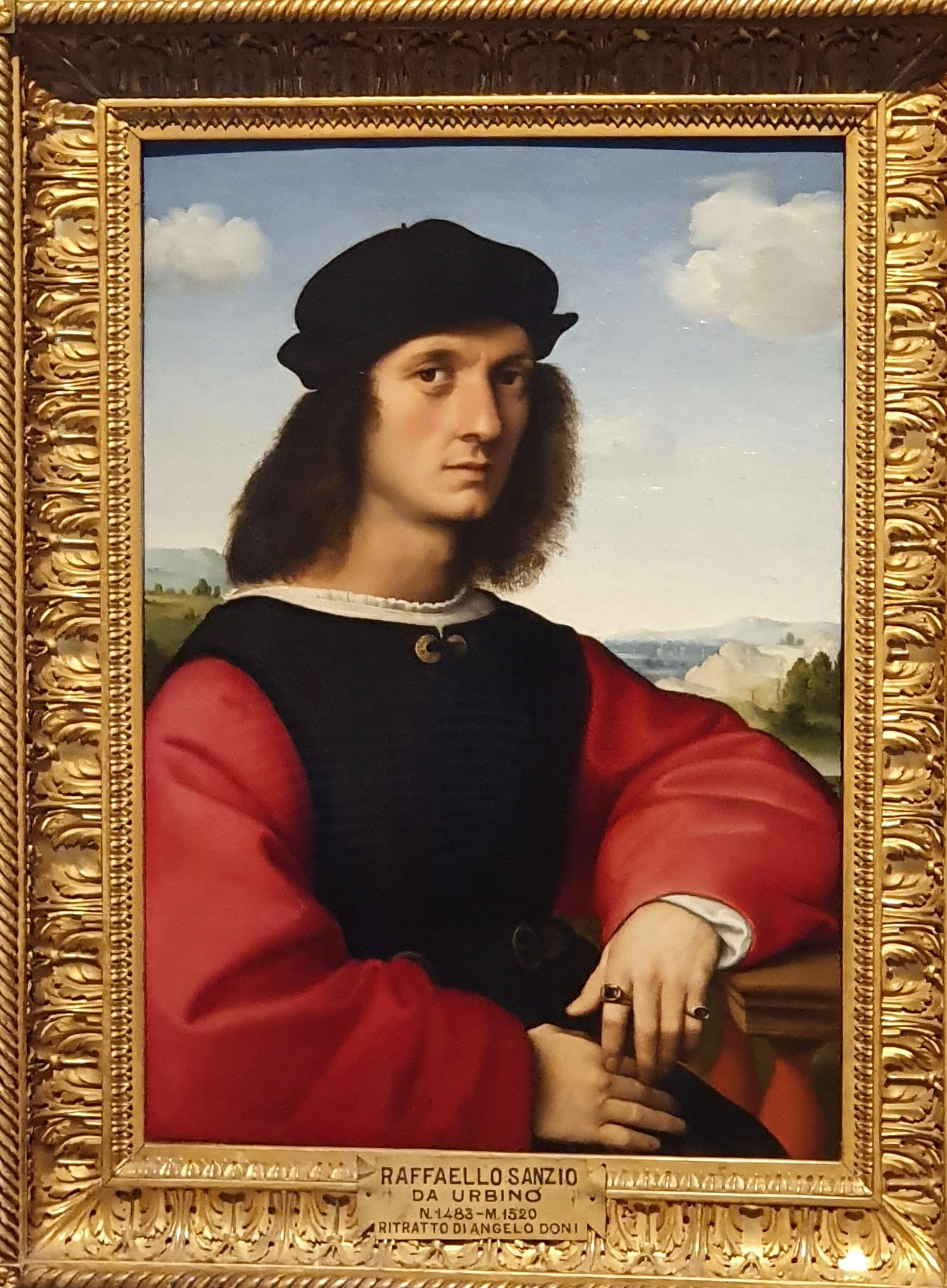 Agnolo Doni's portrait paintings by Raffaello Sanzio at Uffizi Gallery